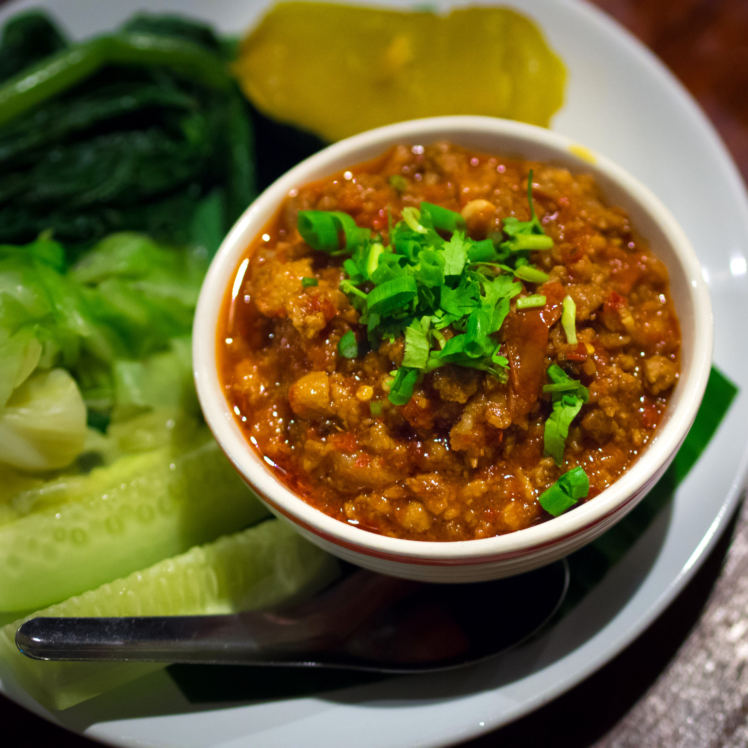 Nam phrik ong (Thai script: น้ำพริกอ่อง): A Northern Thai chilli dip with minced pork and tomato. Best described as a spicy Bolognese sauce, it is served with raw or steamed vegetables and often eaten with sticky rice and deep-fried pork skin (kaep mu).